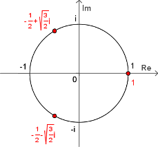 A plot on the complex plane of the complex cubed roots of 1. Created with GeoGebra.